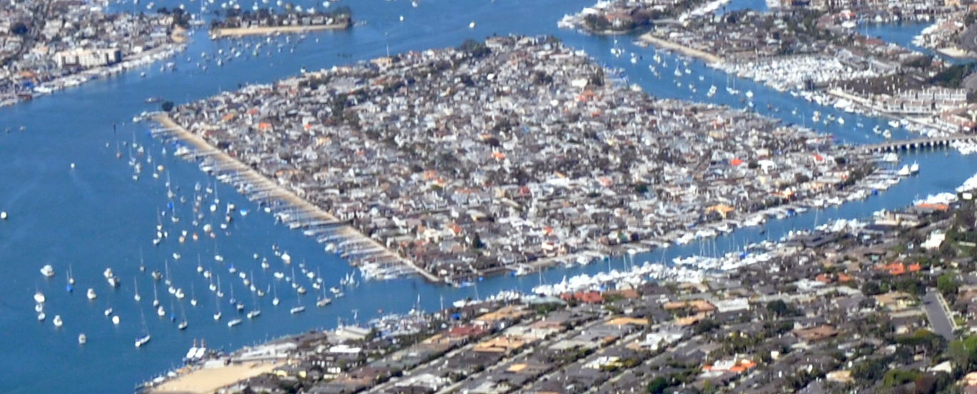 Balboa Island in Newport Beach CA March 28 2010